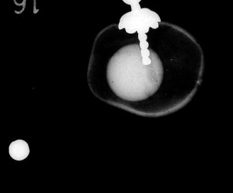 The nucleus of cultured pearls is a large, compact, implanted human-made core bead. There are many cases where the pearl is cultured but the appearance is very similar to that of a natural pearl. This can be easily detected under the gemological X-ray machine.